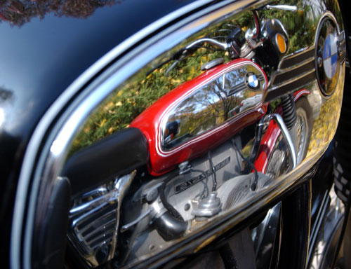 One R75/5 "Toaster" reflected in another Photo © by Jeff Dean